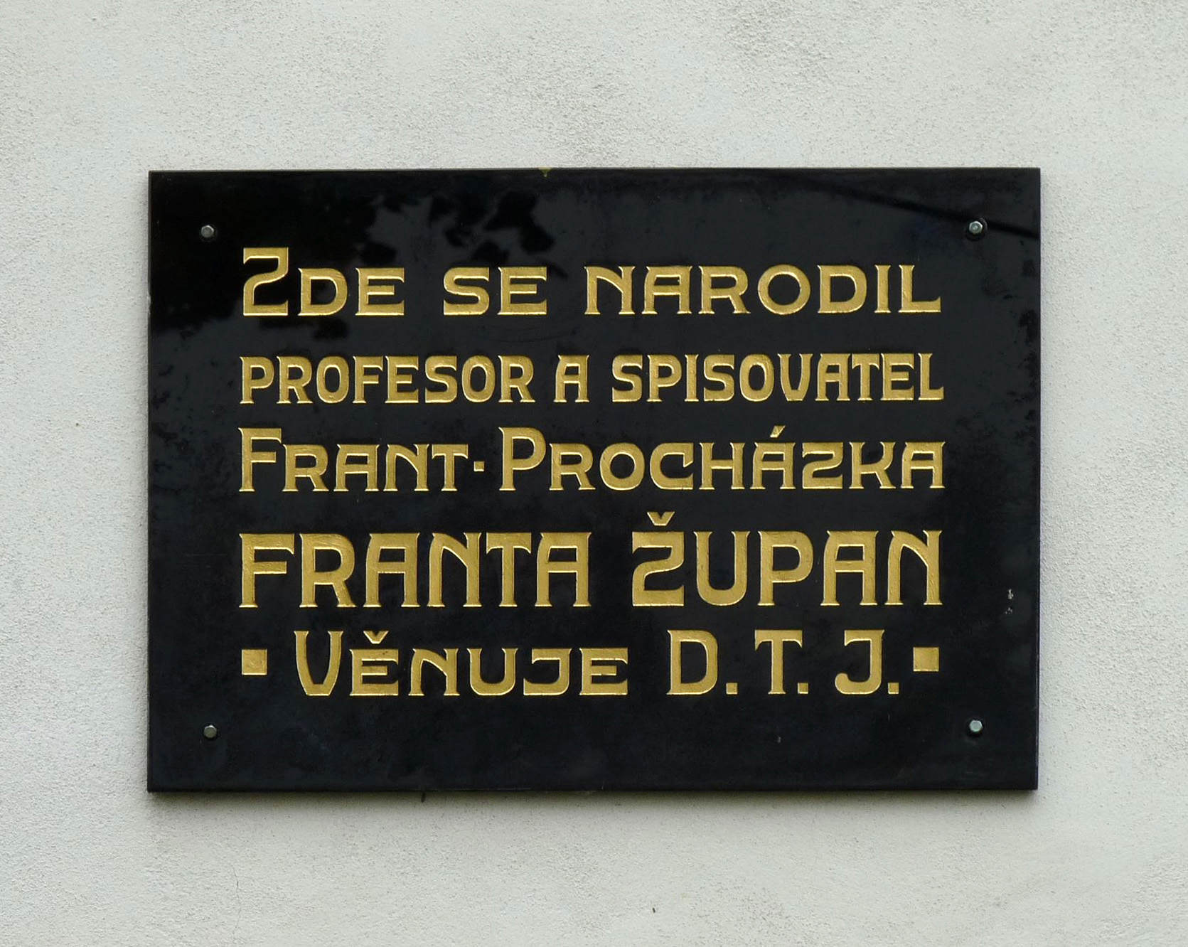 Plaque in the village of Běštín, Beroun District, Central Bohemian Region, Czech Republic.